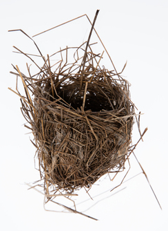 New Zealand Fernbird, Bowdleria punctata, nest from the collection of Auckland Museum (AM LB10379)